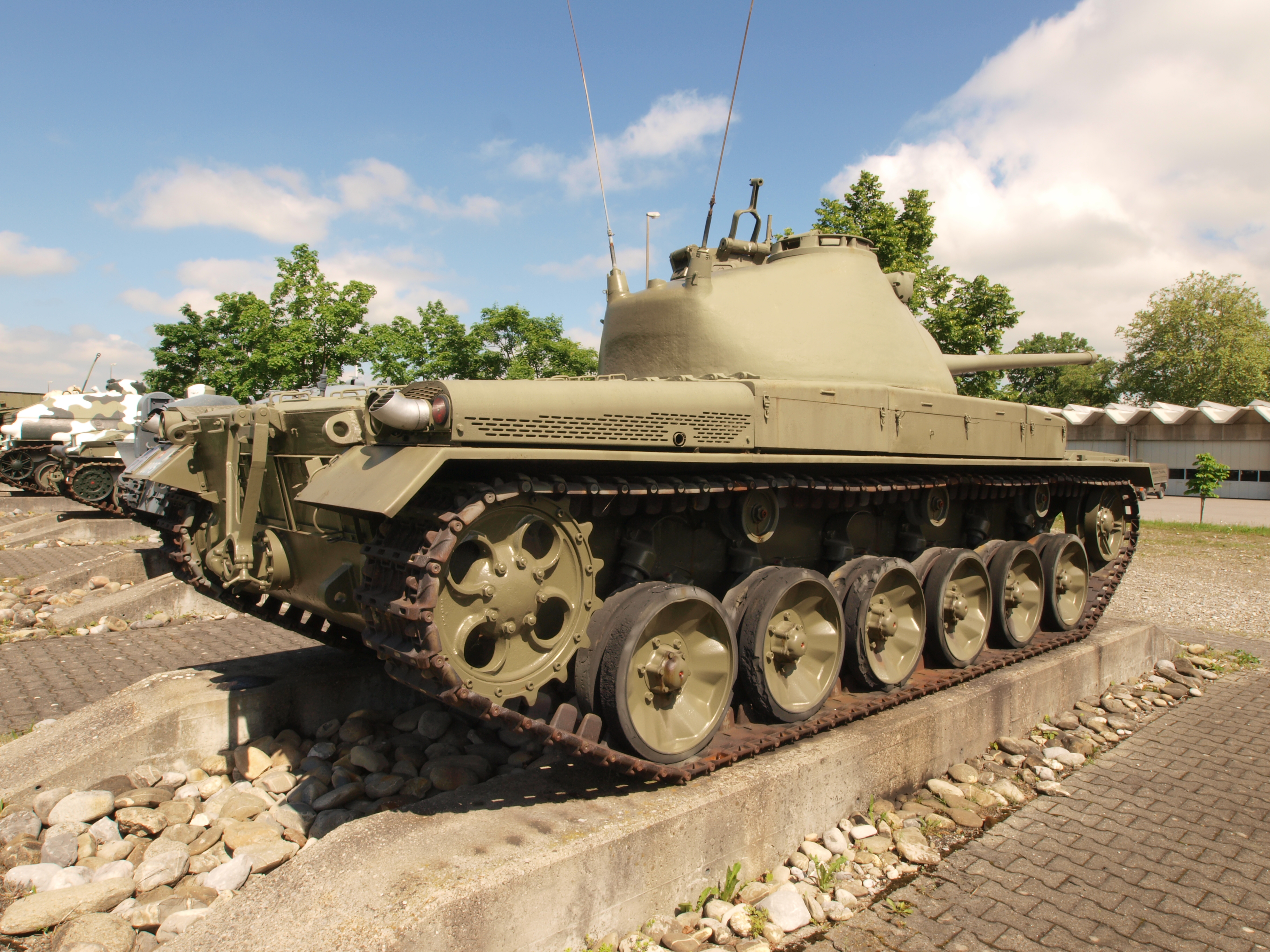 Photographed at the army base Thun, Switserland.